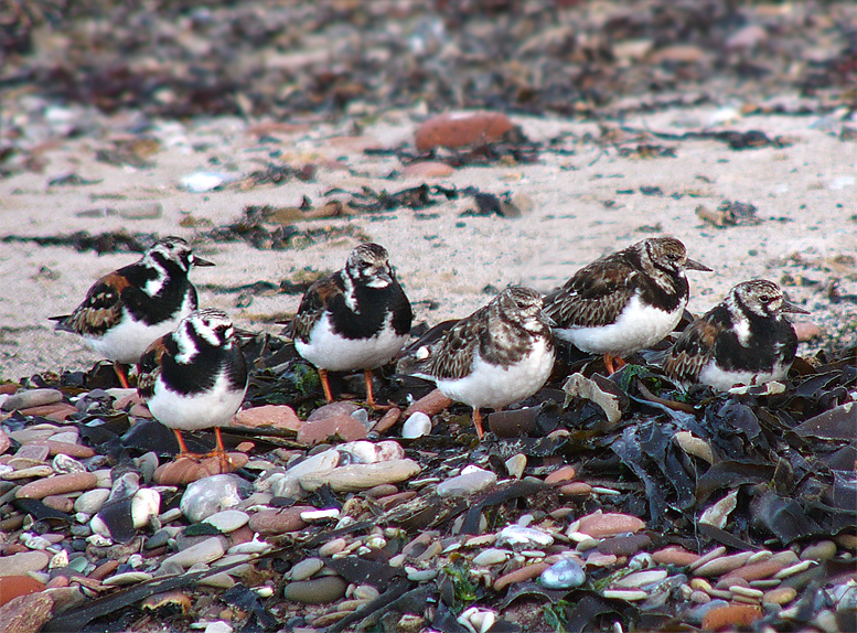 Turnstone